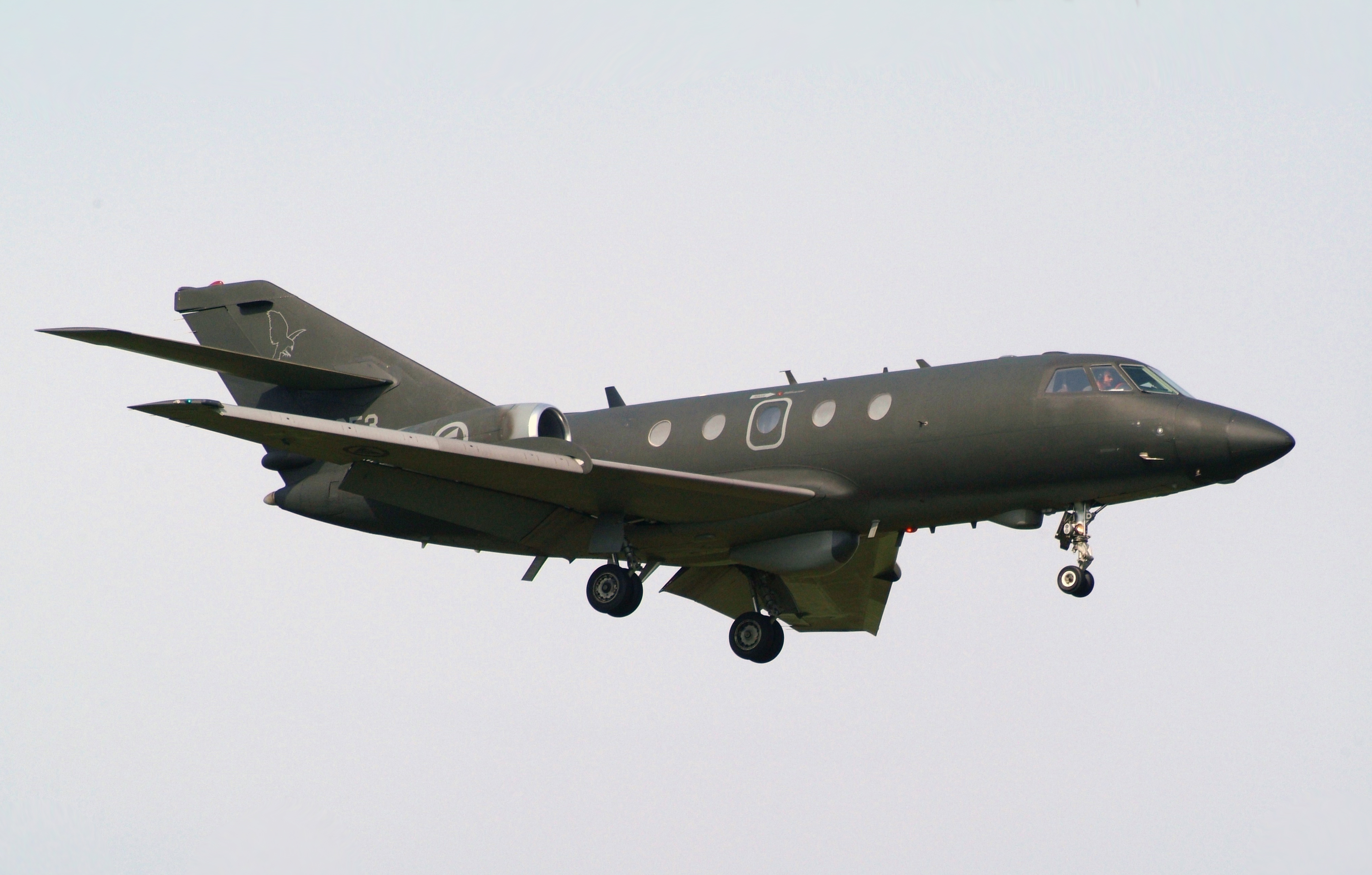 Falcon 20 ECM of FEKS 717 Skv. Royal Norwegian AF